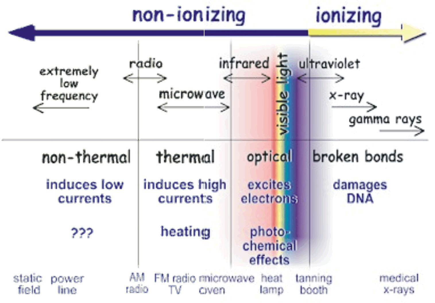 Diagram, "Types of Radiation in the Electromagnetic Spectrum."